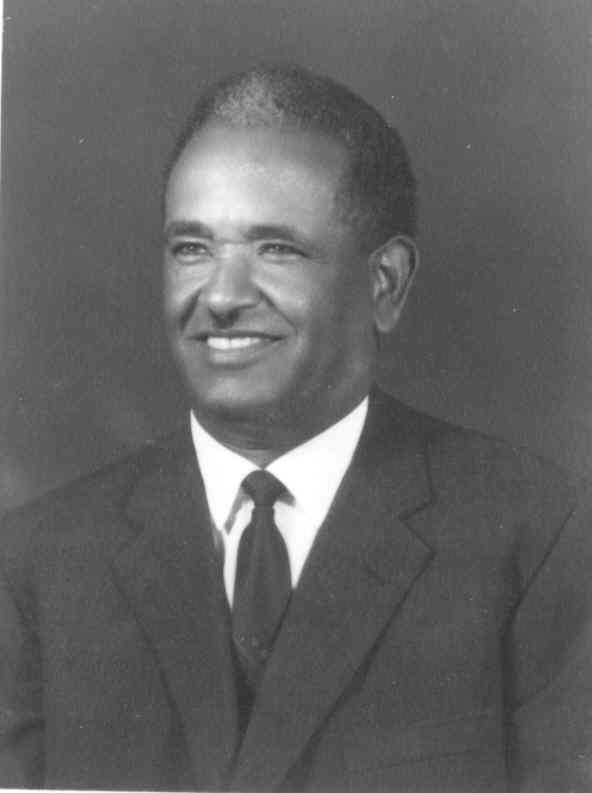 Abbai